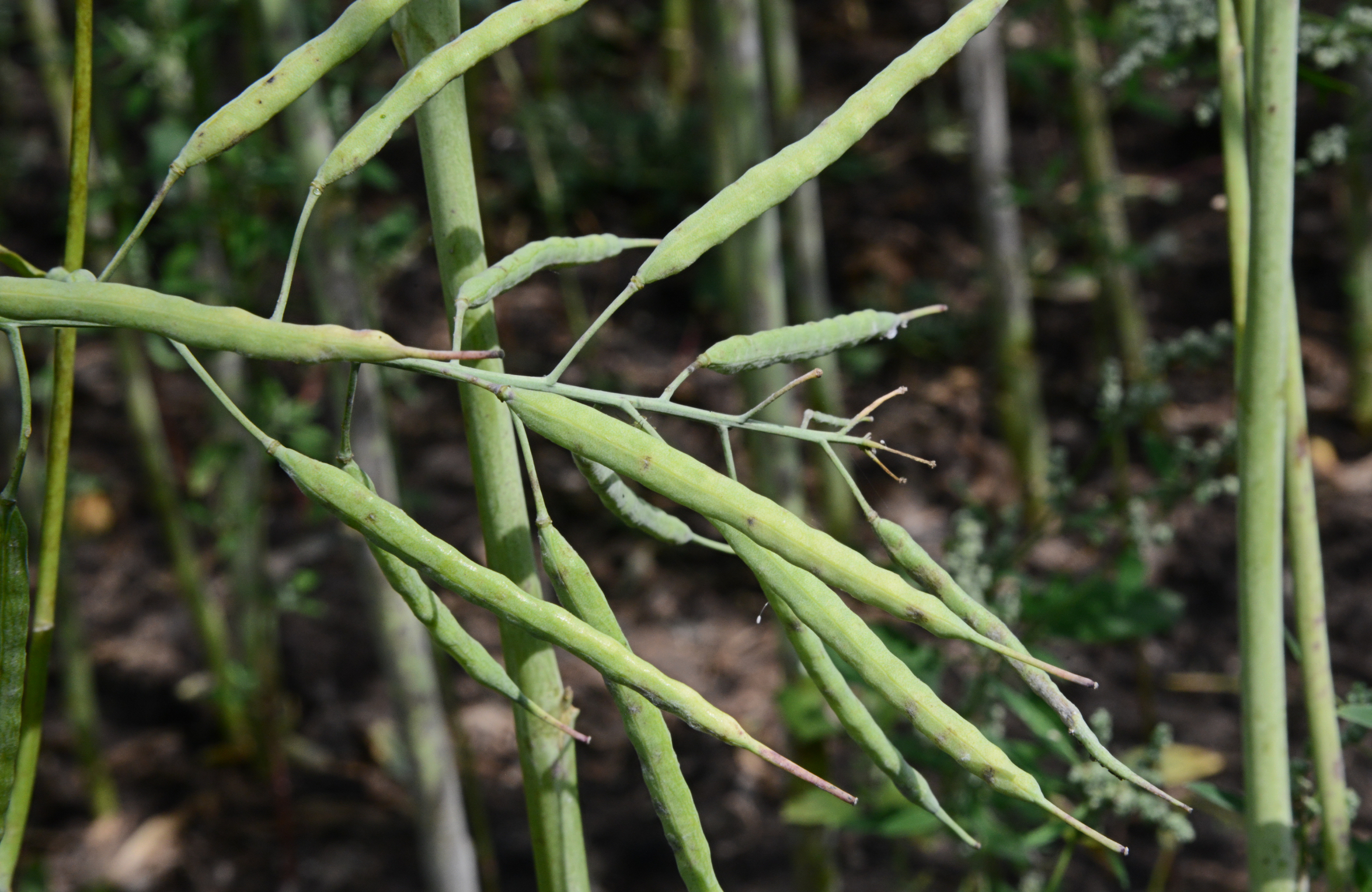 Brassica napus, siliques